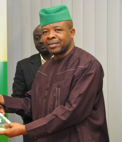 HURIWA'S ADVOCACY VISIT TO DEPUTY SPEAKER Hon. Emeka Ihedioha,CON